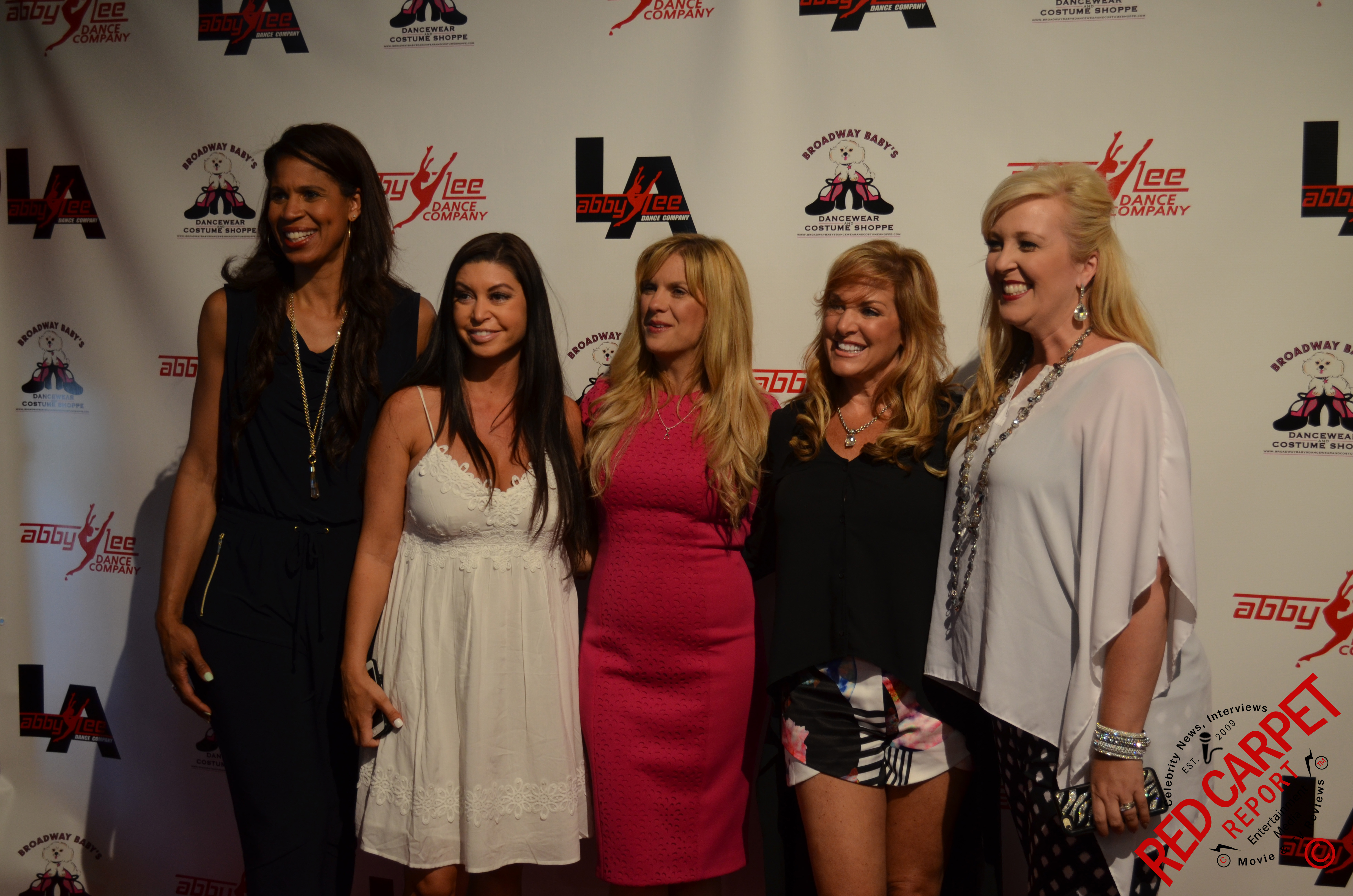 The Dance Moms at the Opening of Abby Lee Miller's Dance Company in Santa Monica. From left: Holly Hatcher-Frazier, Kira Gerard, Melissa Gisoni, Jill Vertes and Jessalyn Siwa